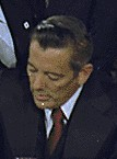 Omar Torrijos, President of Panama, while signing the signing the Panama Canal Treaty, September 7, 1977. ARC Identifier: 179927